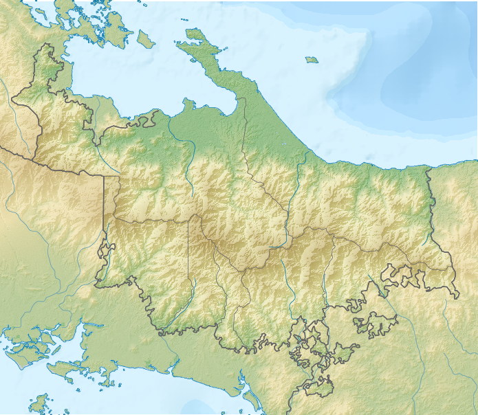 Relief map of Ngobe-Bugle province, Panama.